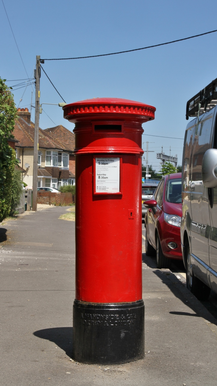 "Anonymous" pillar box in Haydon Road, Didcot, Oxfordshire (formerly Berkshire). Cast by Andrew Handyside and Company between 1879 and 1892.